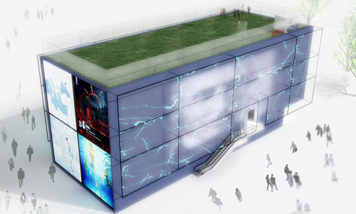 my project